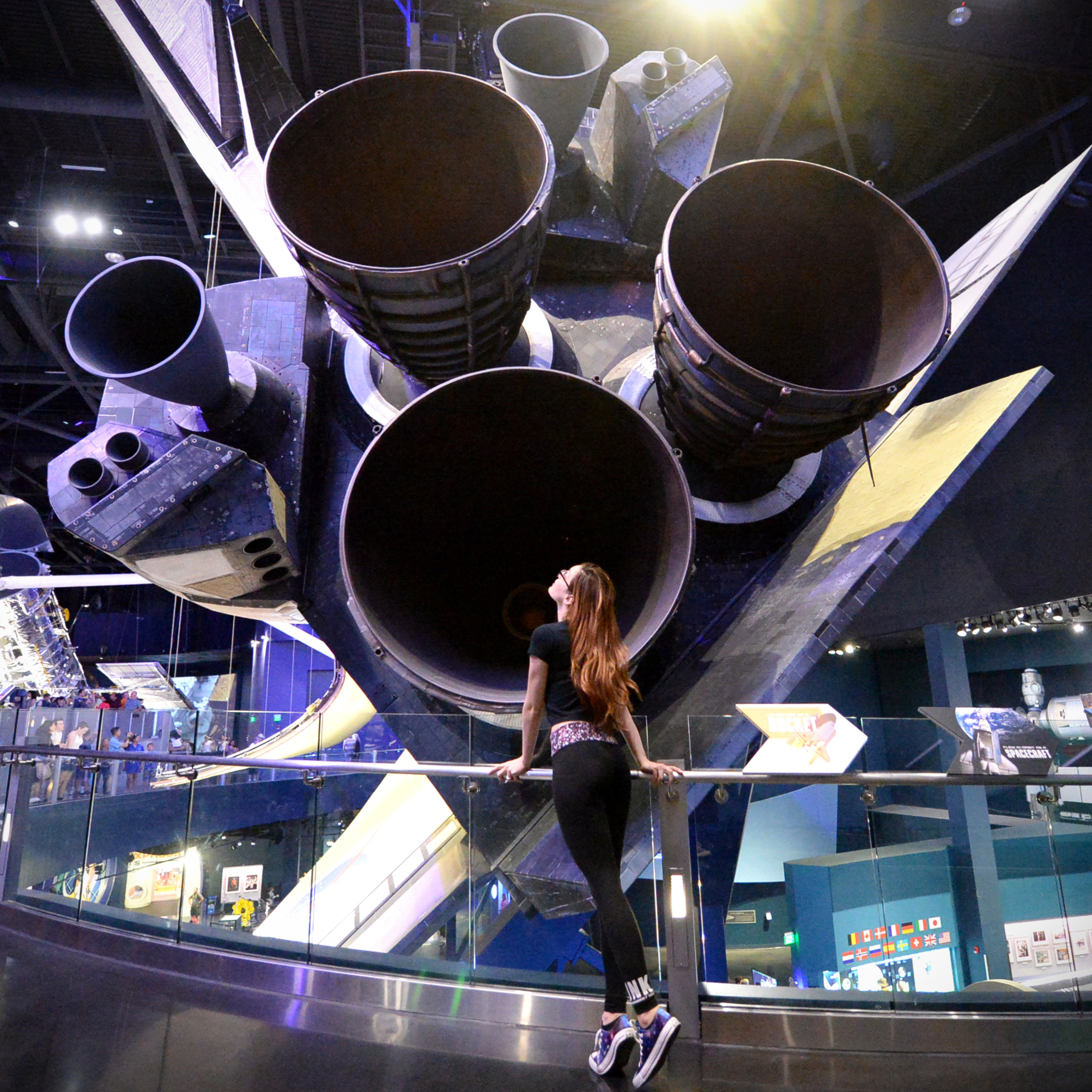 NASA's Space Shuttle Atlantis at Kennedy Space Center in Cape Canaveral, Florida, 2016. Attribute to Steven Keys and